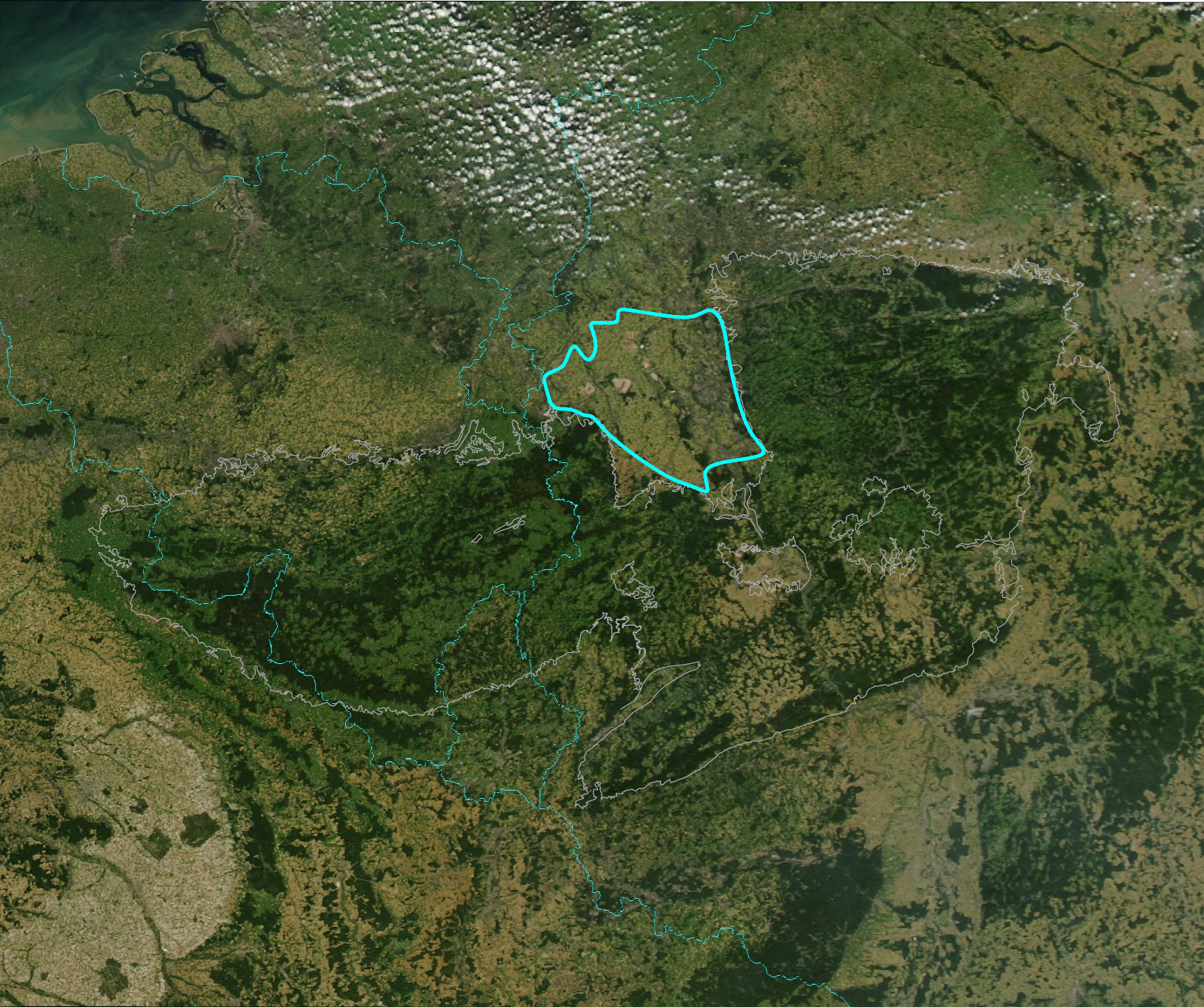 Outline of the Niederrheinische Bucht (fat line) on satellite image of Rheinisches Schiefergebirge (grey outline). Boundaries of Germany (right), the Netherlands (top), Belgium (upper left), France (lower left) and Luxemburg (lower center) for orientation (cyan).